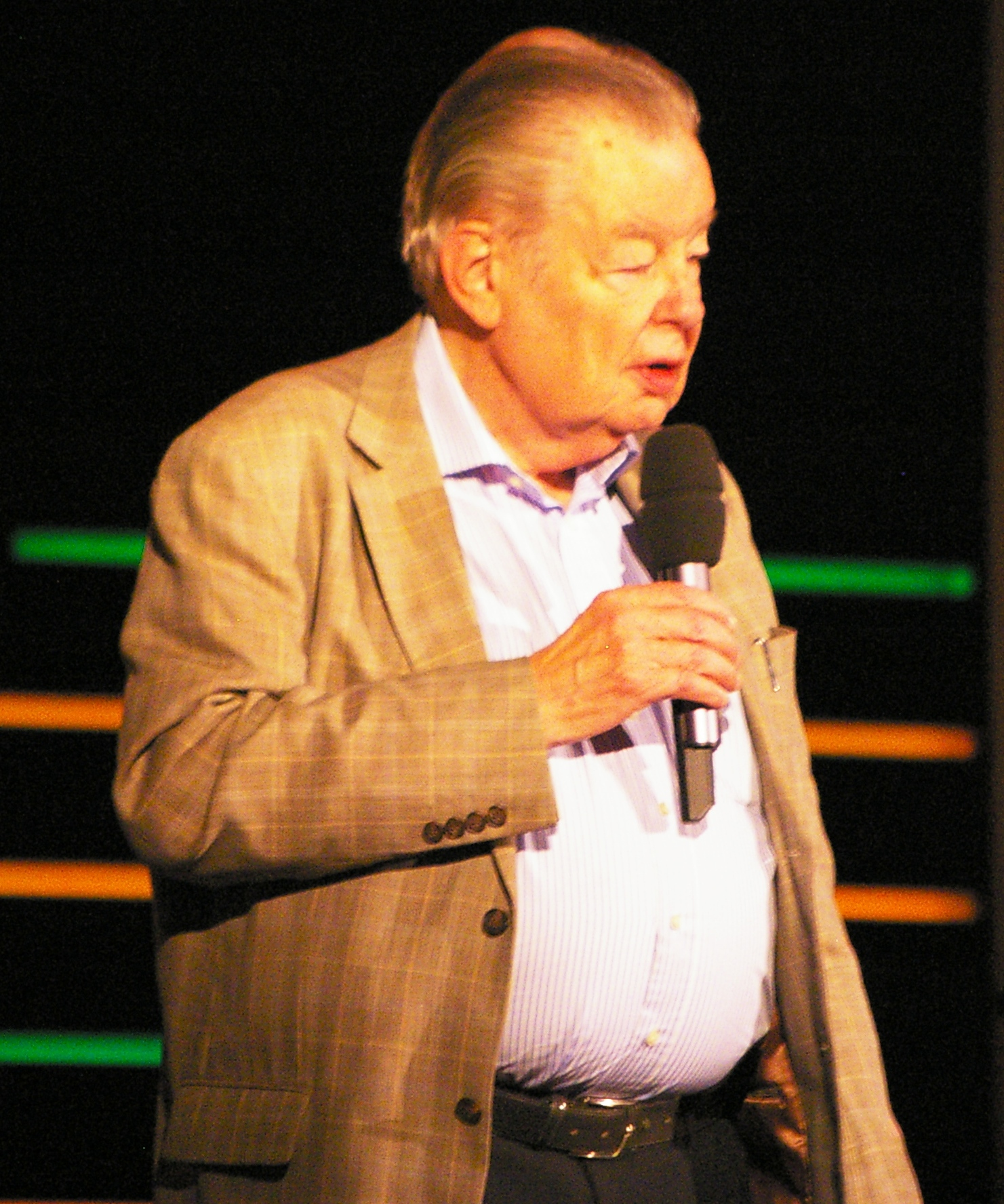 Joe Viera founder of the Internationale Jazzwoche Burghausen